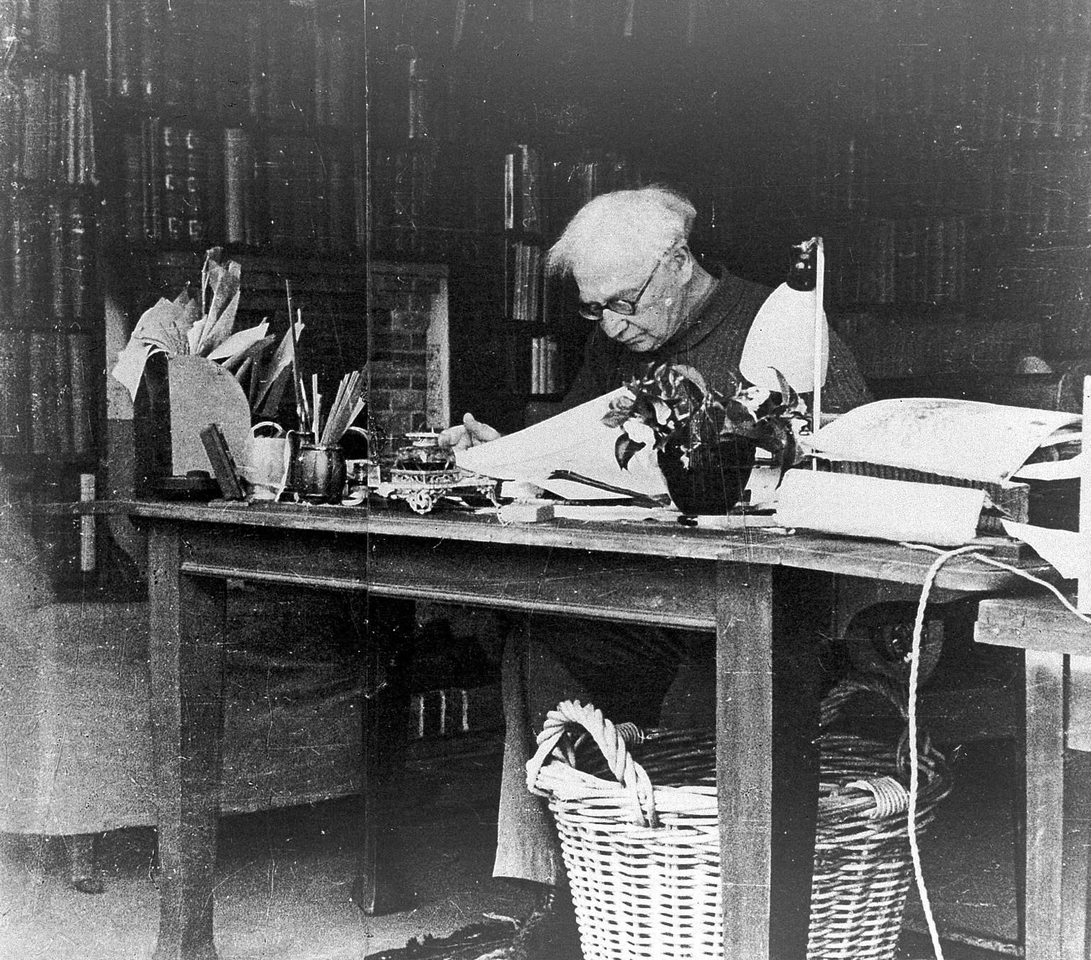 Charles Singer, working at his desk. Wellcome Images Keywords: Charles Joseph Singer; E. A. Underwood